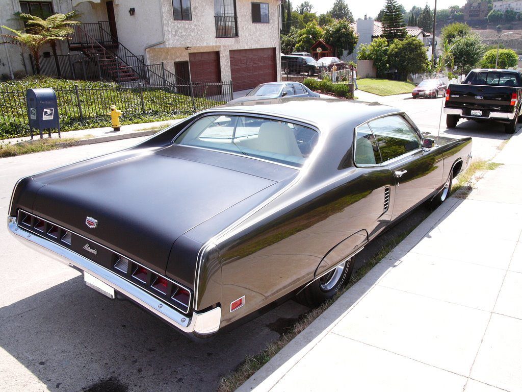 Mercury Marauder X100 Rear